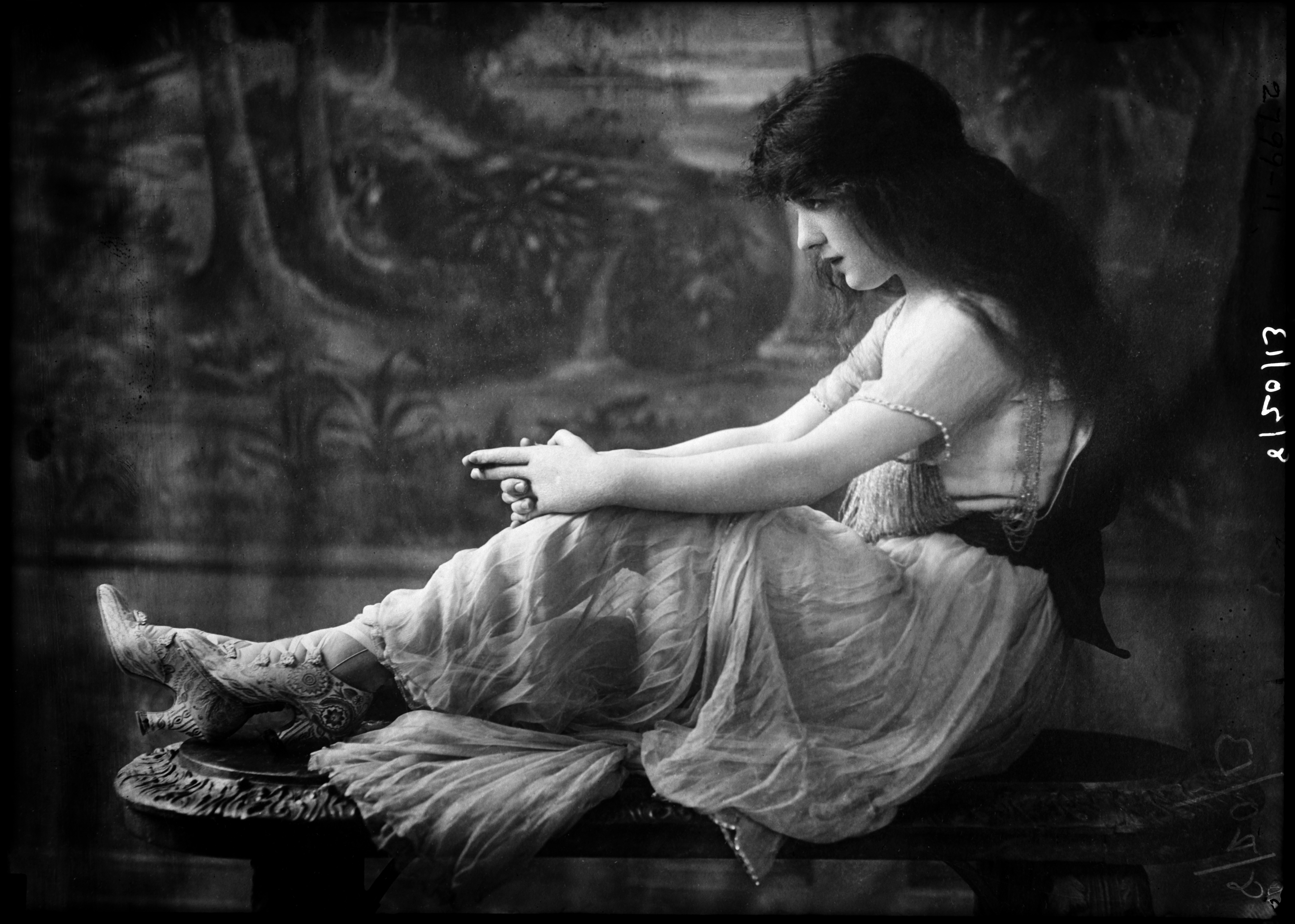 Evelyn Nesbit Thaw, seated, facing left